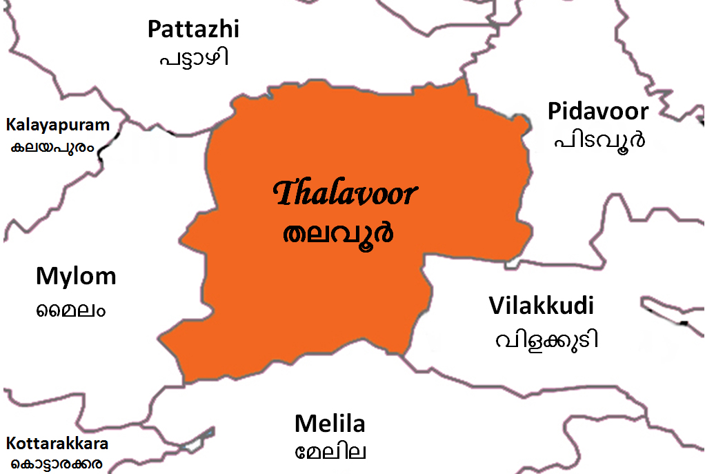 Outline map of thalavoor village. Also shows neighbouring villages. Image created by the author.